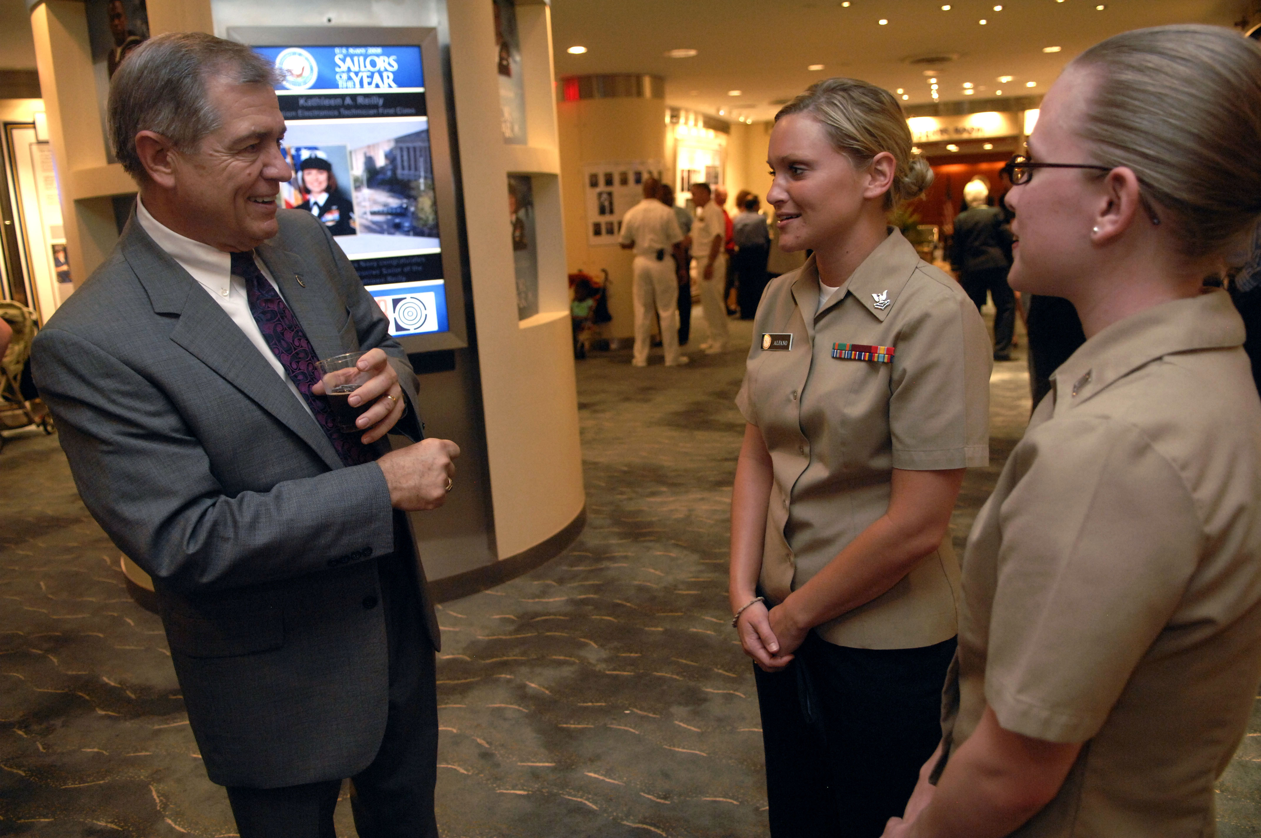 WASHINGTON (June 16, 2009) The ninth Master Chief Petty Officer of the Navy (MCPON) James Herdt speaks with Sailors assigned to the Chief of Naval Operations staff at the U.S. Navy Memorial before a free summer "Concert on the Avenue" performance by the Navy Band. Each year the U.S. Navy Memorial hosts concerts on the Granite Sea every Tuesday from June 2 to August 31. (U.S. Navy photo by Mass Communication Specialist 1st Class Jennifer A. Villalovos/Released)